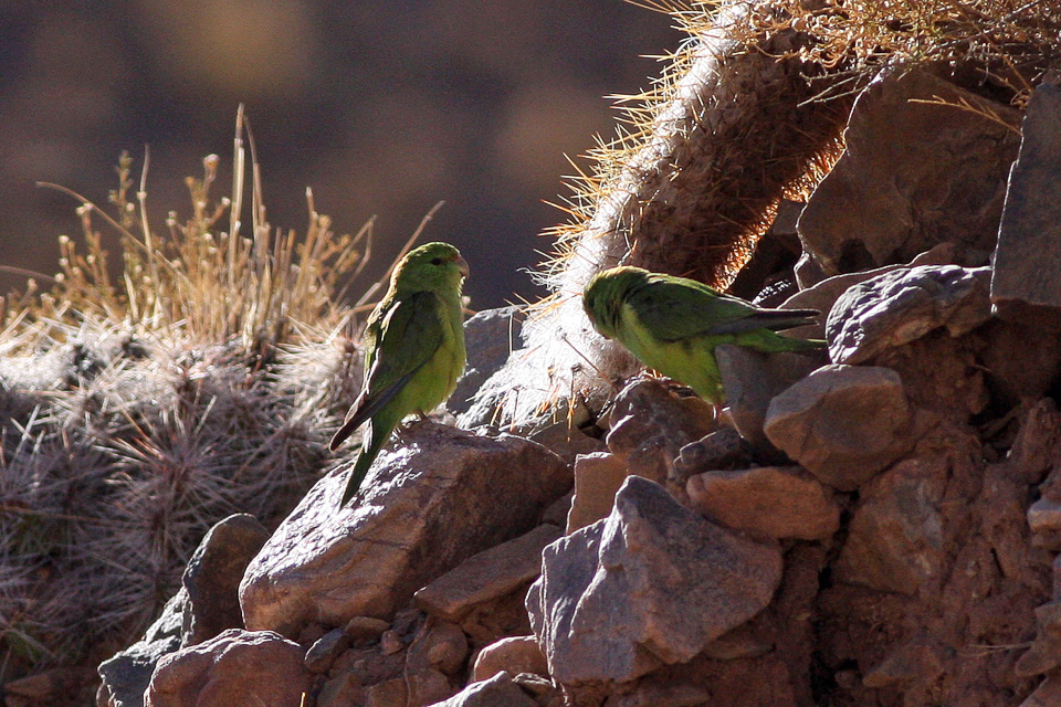 Two Mountain Parakeets seen between Uquia to Yavi, Salta, Argentina.